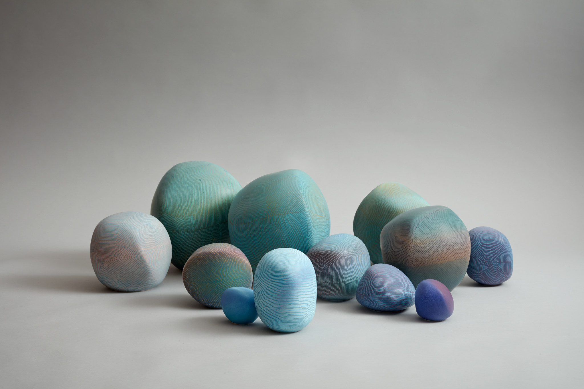 Blue Bush, a typical group of ceramic vessels by Pippin Drysdale inspired by the Devils Marbles rock formations in central Australia